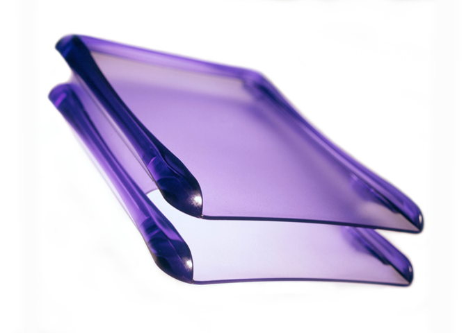 Stationary office collection.